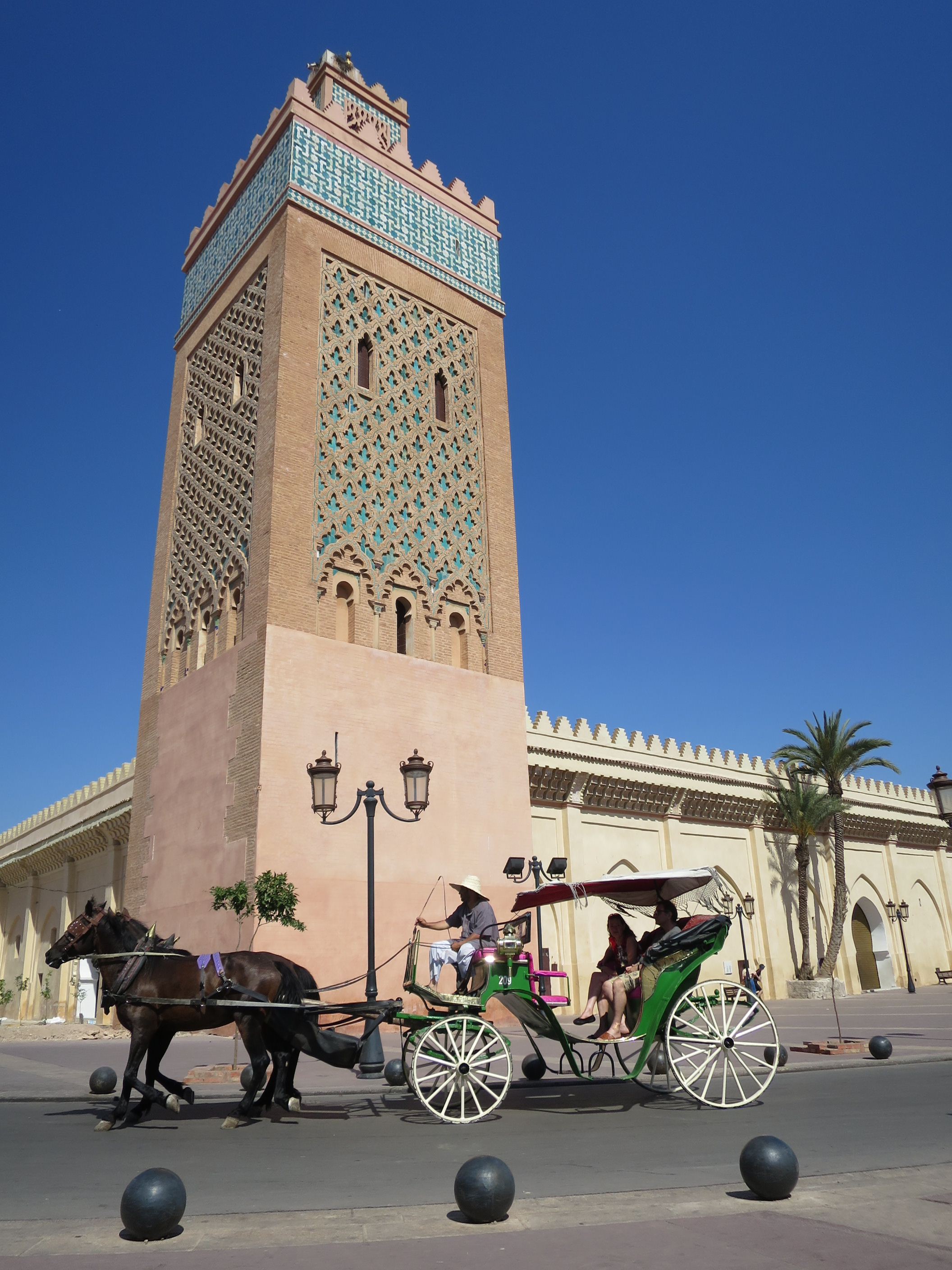 Carriage pulled by horses at the foot of the Moulay El Yazid Mosque in Marrakech, Morocco